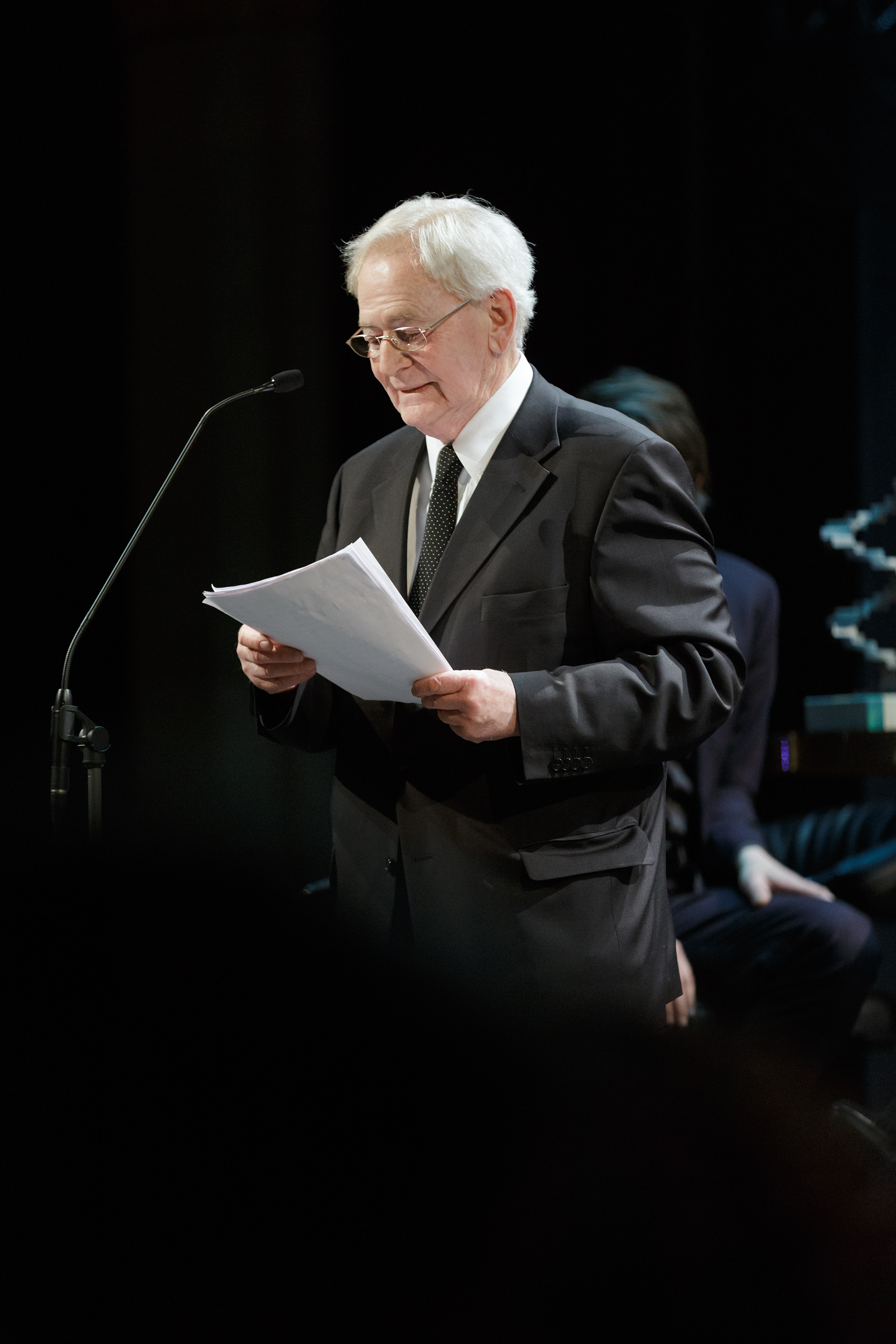 István Szabó at the Austrian Film Awards 2017 (Rathaus, Vienna,Austria).